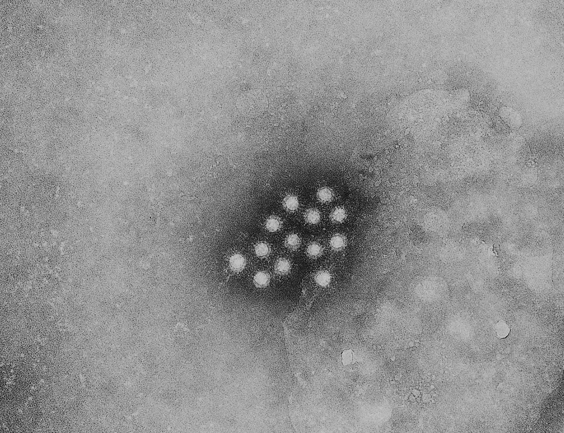 An electron micrograph of the Hepatitis A virus (HAV), an RNA virus that can survive up to a month at room temperature. This virus enters an organism by ingestion of water and food contaminated by human feces, and reaches the liver through the bloodstream. HAV infection is endemic in third world countries, and is prevalent in the Far East.